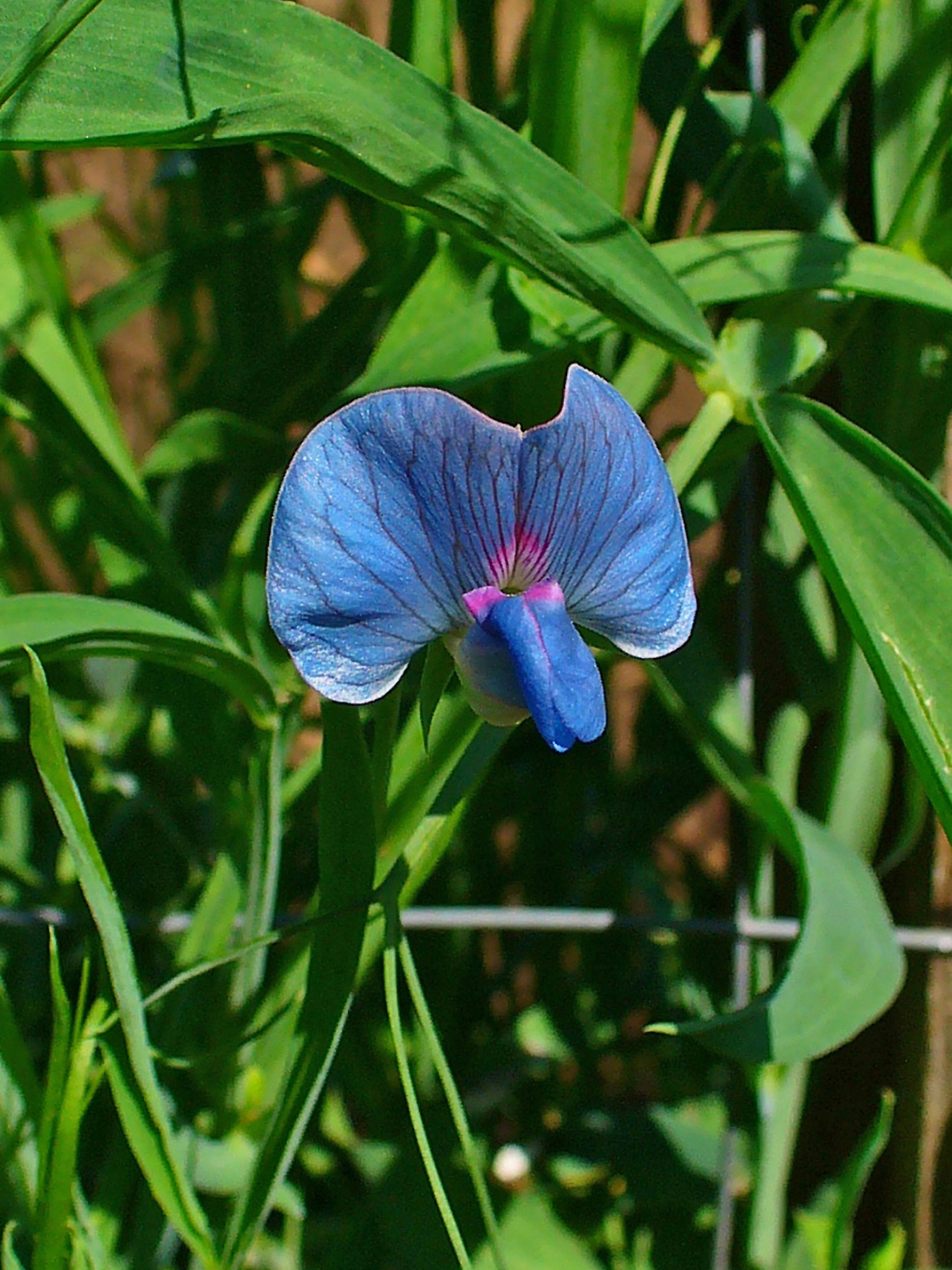 Lathyrus sativus, Fabaceae, Grass Pea, Blue Sweet Pea, Chickling Vetch, Indian Pea, Indian Vetch, White Vetch, flower. The ripe seeds are used in homeopathy as remedy: Lathyrus sativus (Lath.)